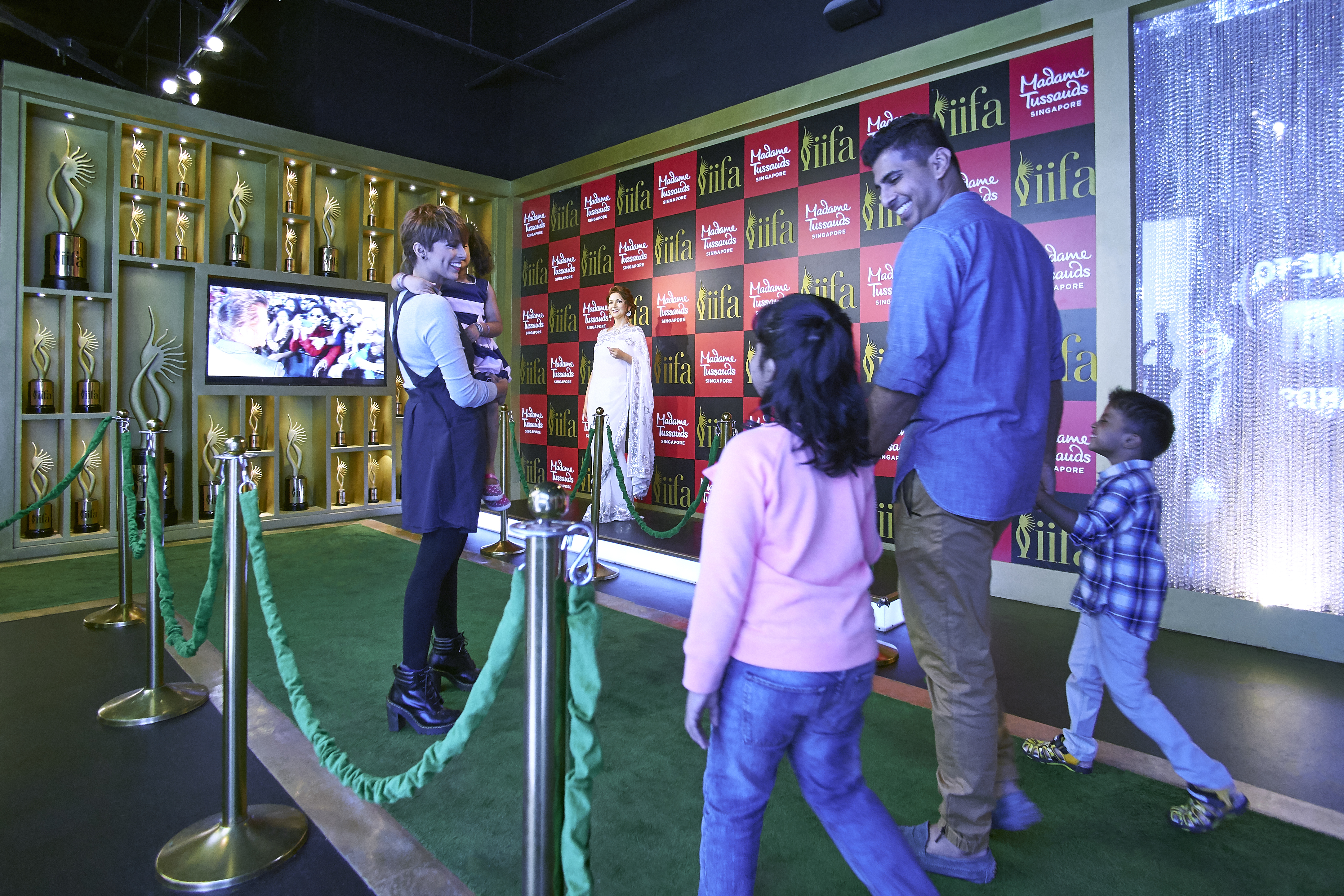 Re-live the glamour of the Bollywood awards ceremony at the NEW IIFA Awards Experience!